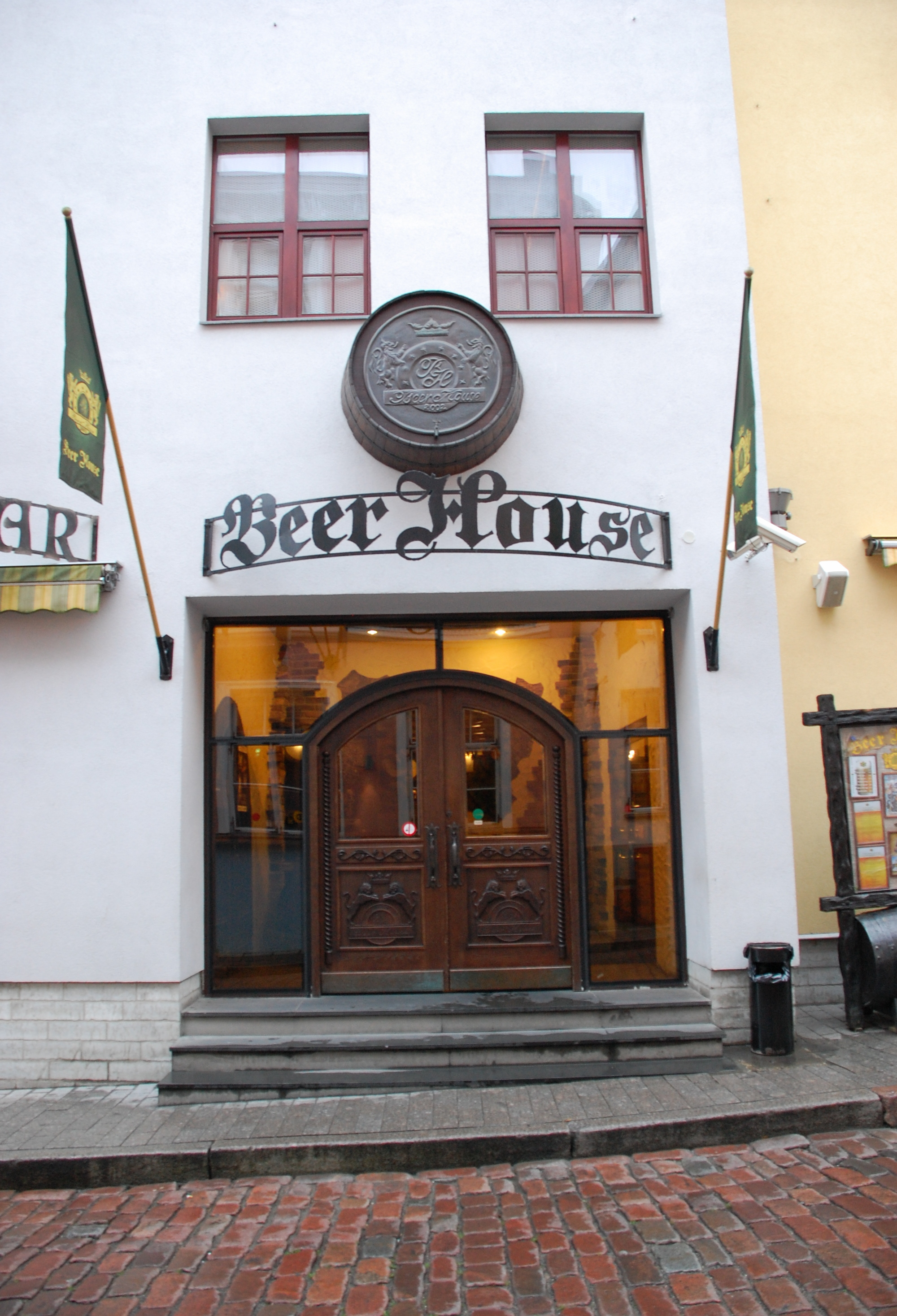 Tallinn, Estonia